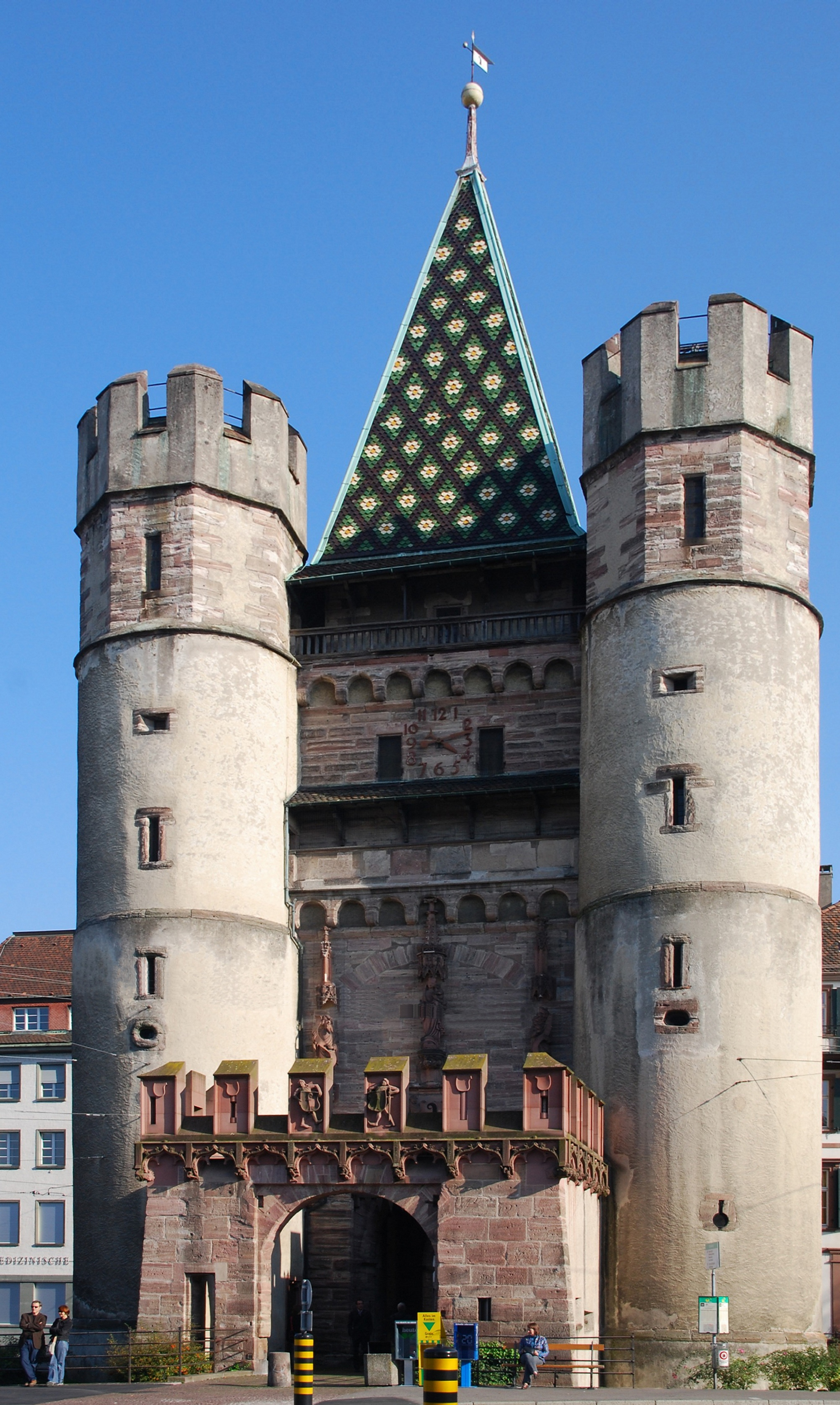 The Gate of Spalen (Spalentor) in Basel.